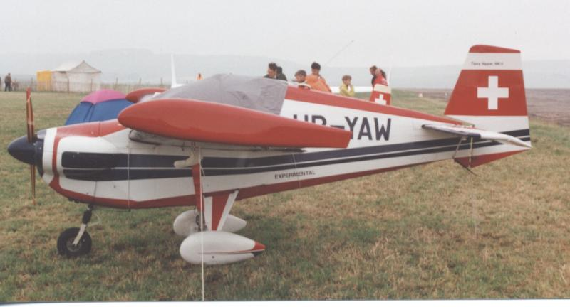 Tipst T.66 Nipper from Switzerland at Wroughton, UK